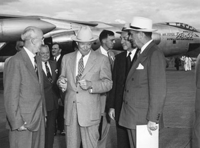 President Dwight D. Eisenhower and members of his Cabinet inspect the YB-52 prototype of the B-52 Stratofortress.